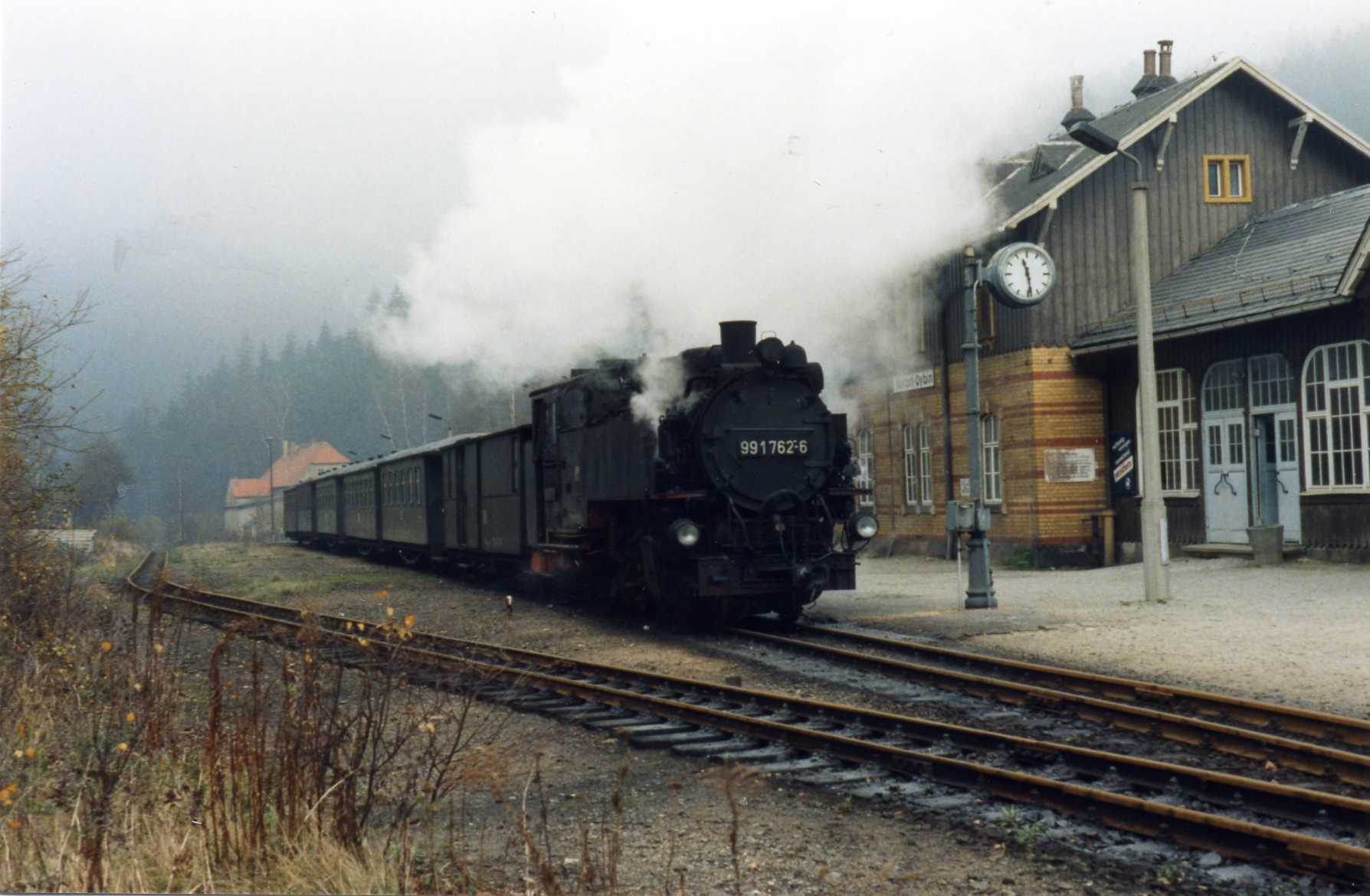 11.29 am on 10 November 1989 and the Berlin Wall has been open (for Germans) for less than a day. 99 1762-6 has arrived at Oybin with a narrow gauge train from Zittau. There is some fine brick banding on the station.